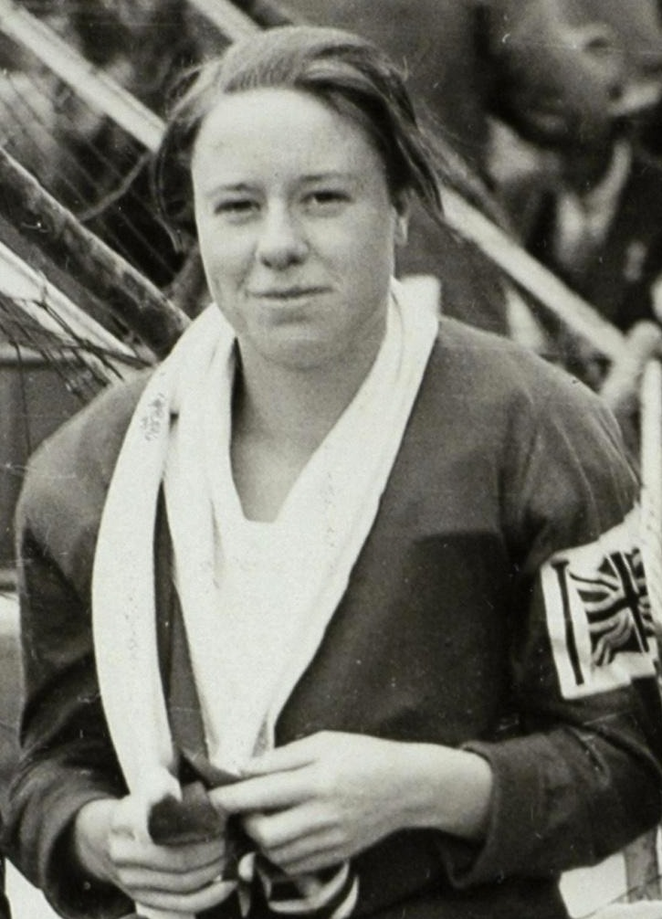 Ellen King, from the 1928 Olympics 4x100m English team